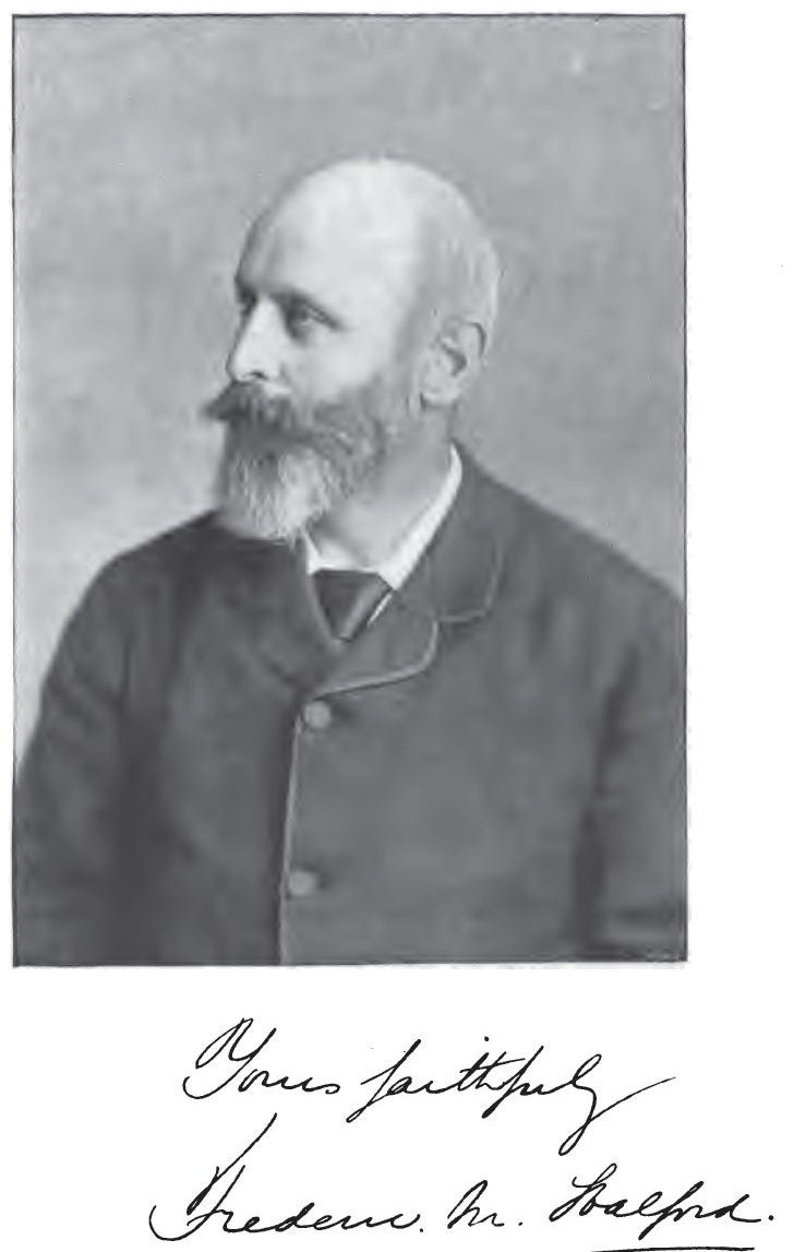 Frederic M. Halford, frontpiece from Making a Fishery, (1895)